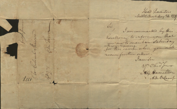 Correspondence from Alexander Hamilton to Col. Shreve on May 26, 1779. Sent from Headquarters in Middlebrook. Text: Sir, I am commanded by his Excellency to inform you that you are to march on Saturday with your regiment for this camp where you will receive further orders. I am your humble and obedient servant. Alex Hamilton